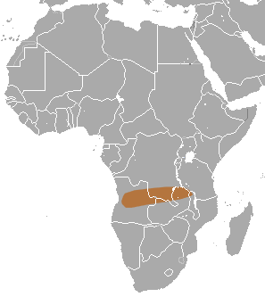 D'Anchieta's Fruit Bat (Plerotes anchietae) range